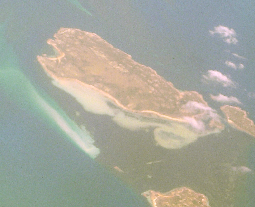 Aerial photo of Anderson Is Tasmania from the south east, but camera was held at an odd angle. South is to left.